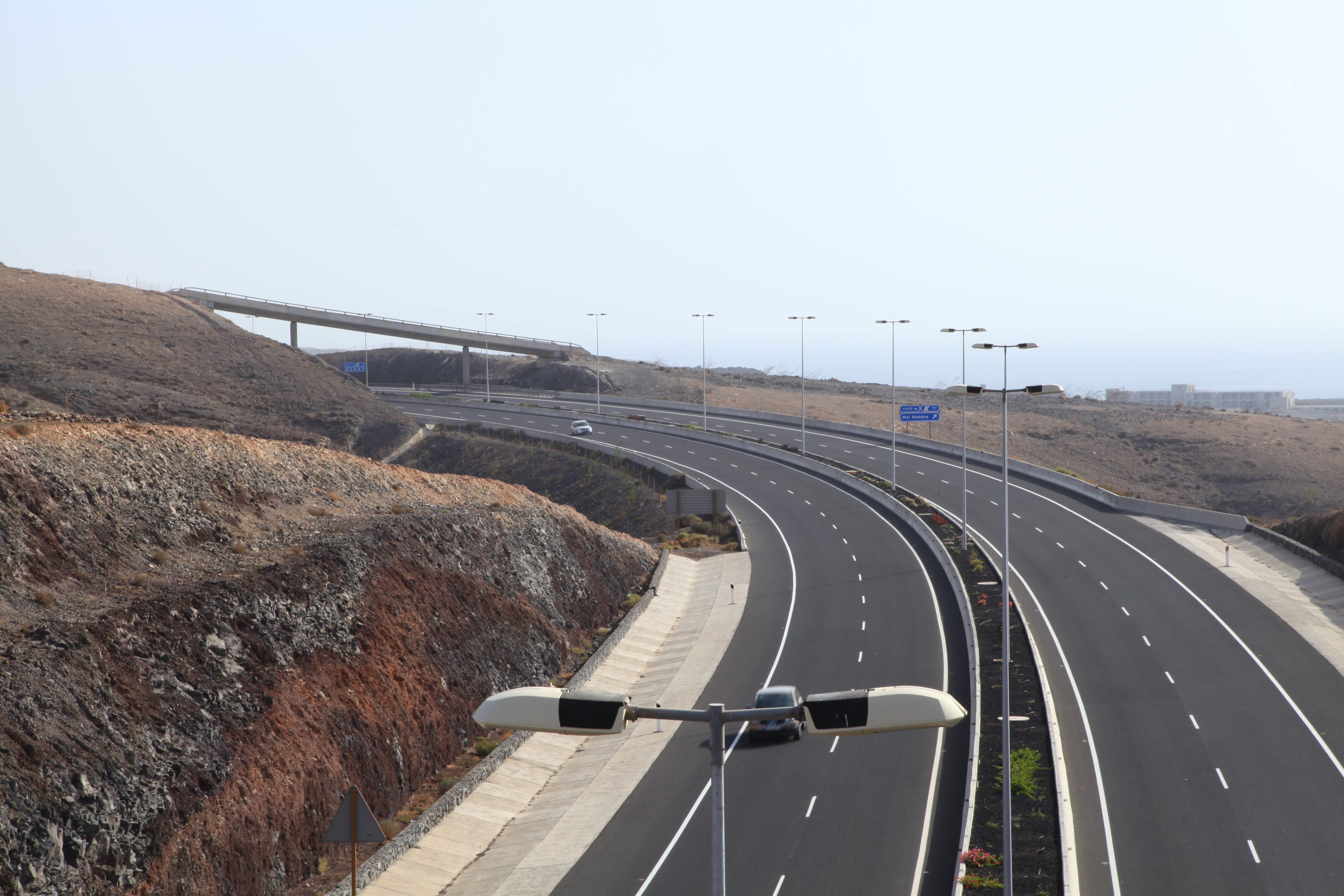 FV-2 in Pájara, Fuerteventura, Canary Islands